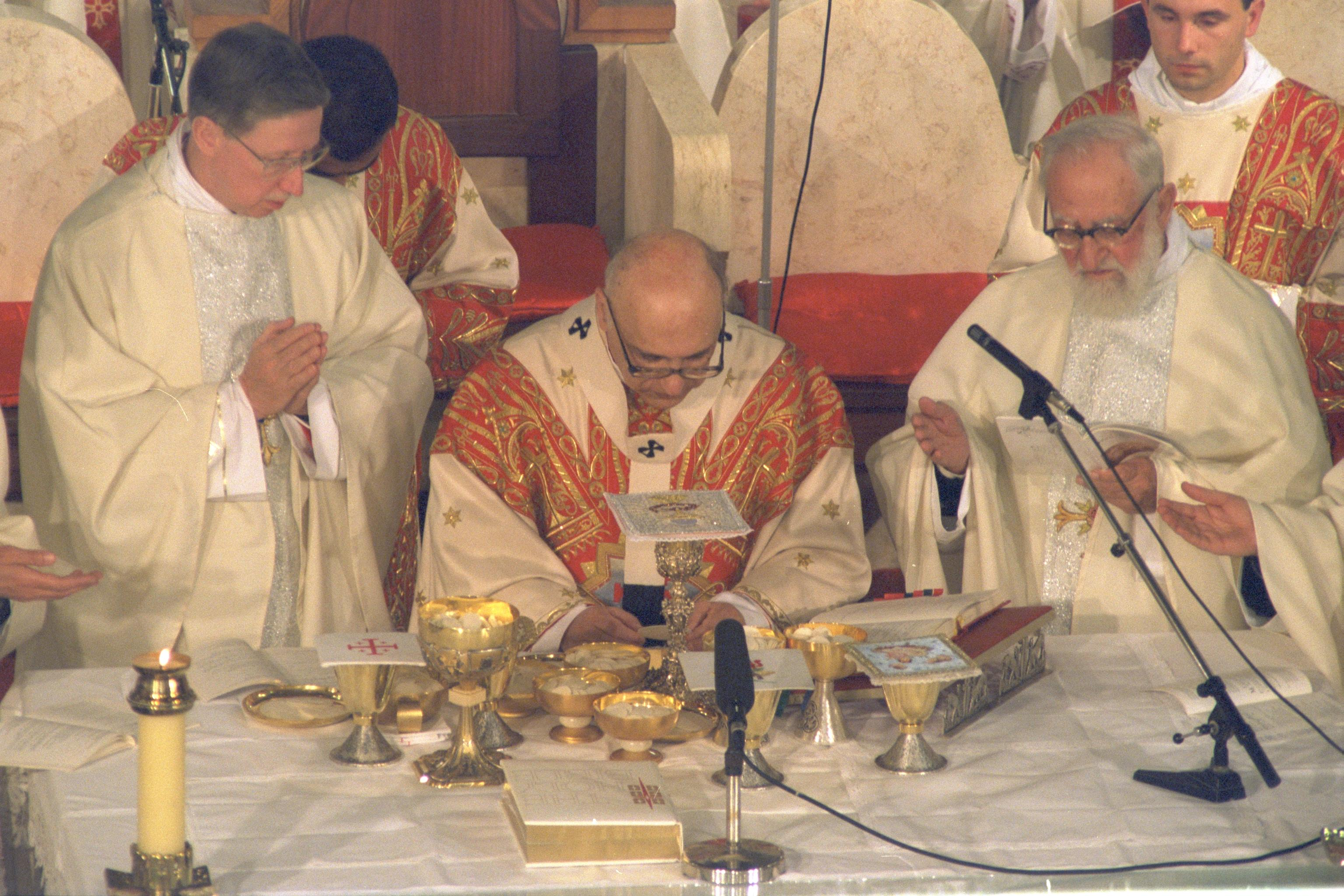 Christmas mass in Bethlehem's Church of the Nativity (25/12/1992) מסת חג המולד בכנסיית המולד בבית לחם Photo: Moshe Milner (1946–) Alternative names Miylner, Moše; Milner, Mosheh; Moshé Milner; Milner, M.; Mîlner, Moše; Miylner, MošehDescriptionIsraeli photographerצלם ישראליDate of birth 1946 Location of birth Germany Authority control : Q28750411 VIAF: 100999744 ISNI: 0000 0001 0804 0507 LCCN: n82072104 GND: 115699732 BNF: 15548788n WorldCat creator QS:P170,Q28750411 .